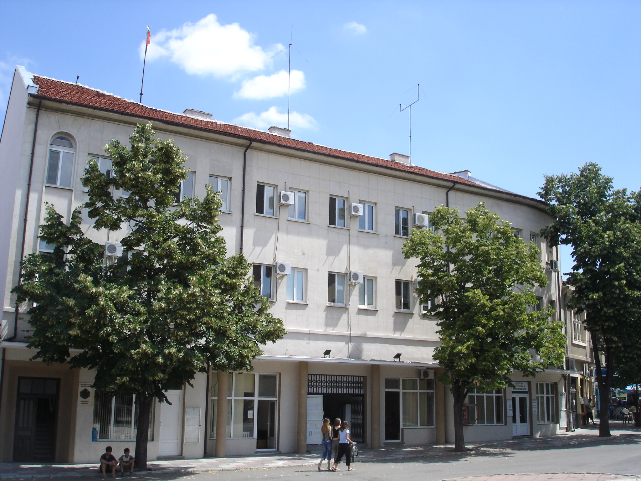 Municipality of Elhovo, Bulgaria